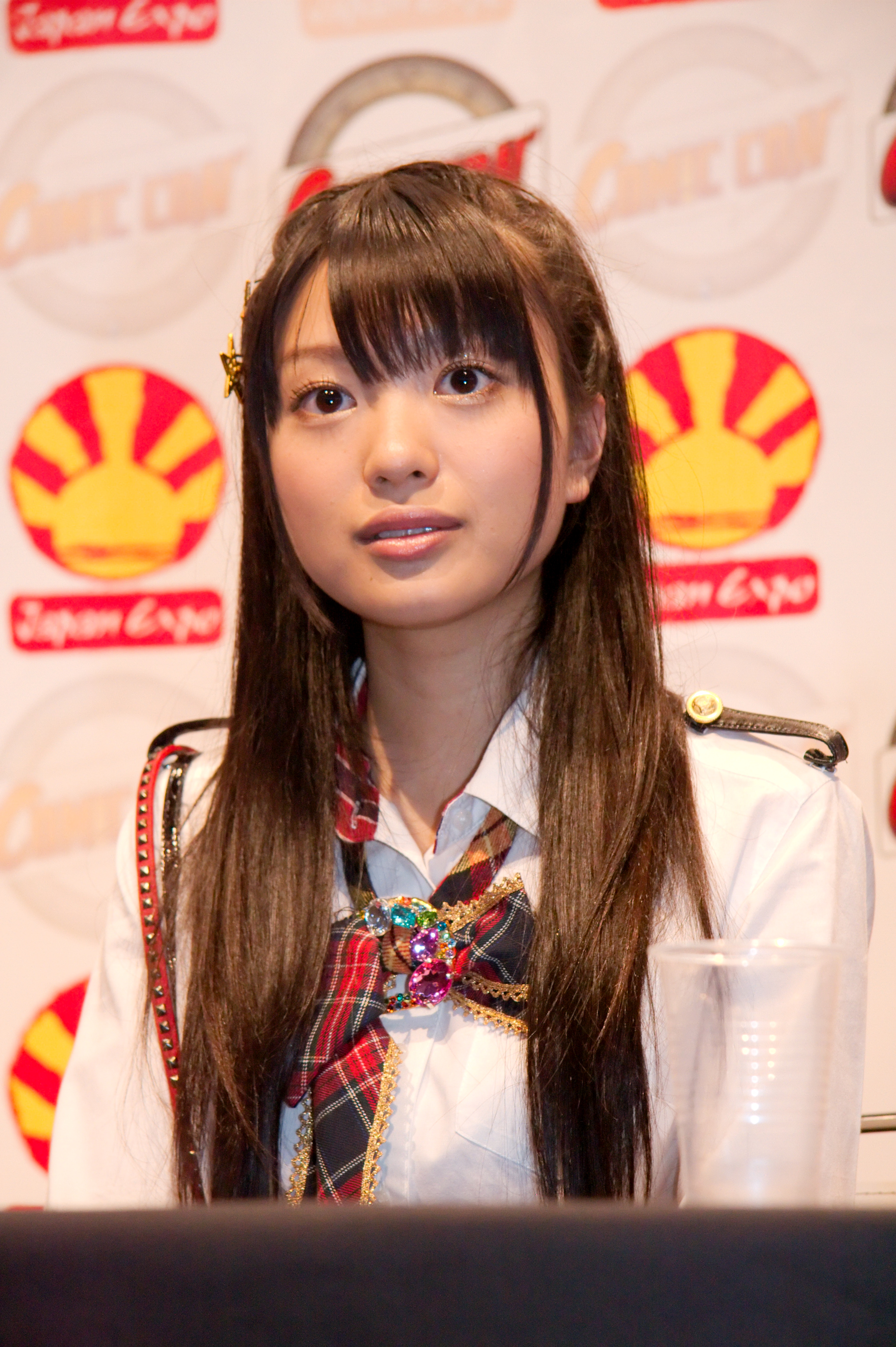 Rie Kitahara of AKB48 during lecture at Japan Expo 2009 (Paris, France).